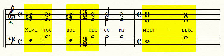 Easter troparion (fragment)